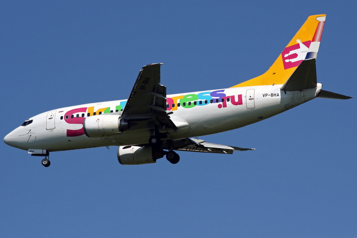 Sky Express' (Russian LCC) Boeing 737-529 (reg. VP-BHA) is landing at Moscow Vnukovo airport